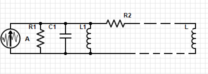 An example of a circuit which could be solved by using multidimensional Laplace transform.